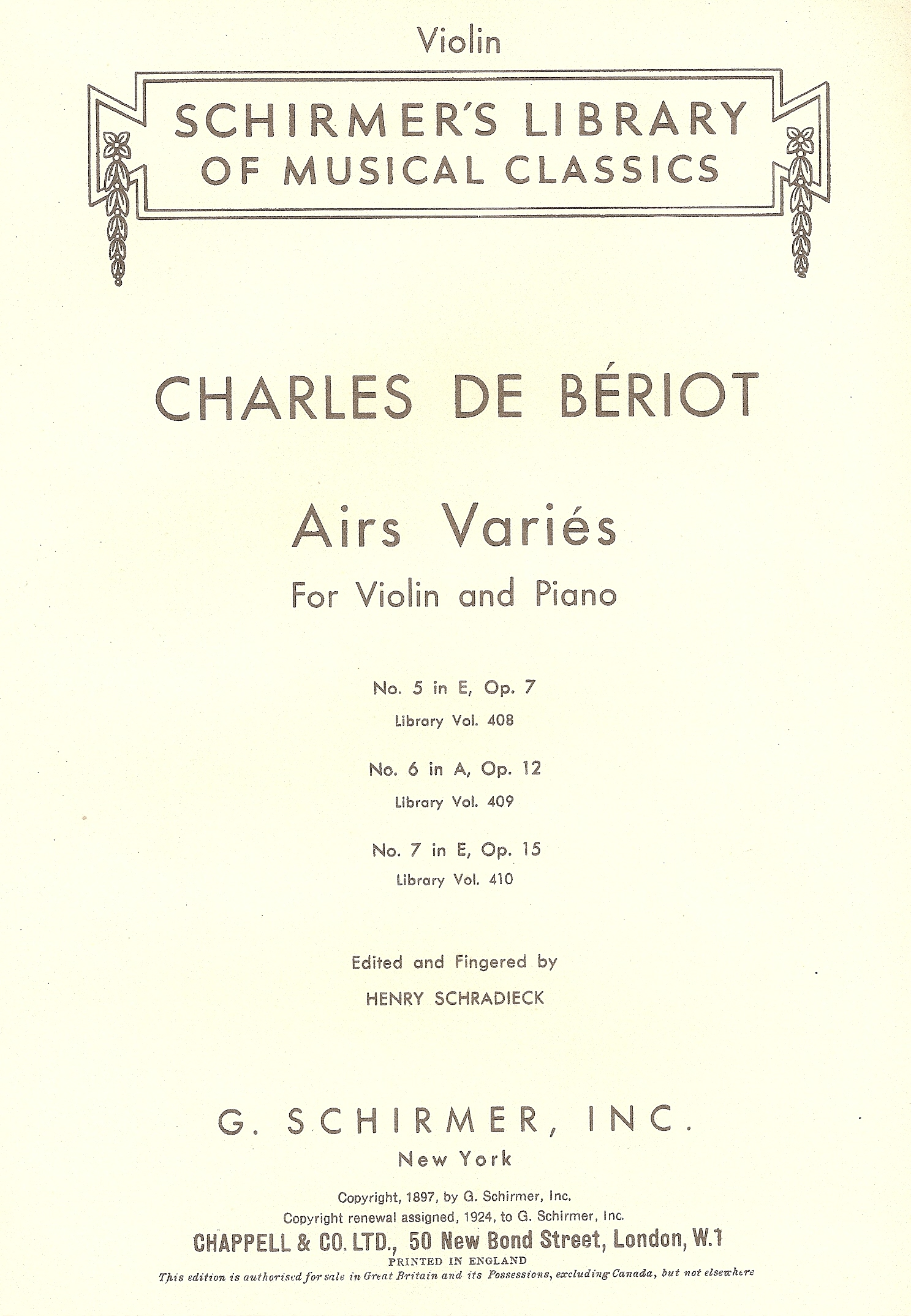 A cover page of some of Bériot's Airs Variés, published in New York and distributed by Chappell & Co. Ltd. of London. It was 'authorised for sale in Great Britain and its Possessions, excluding Canada'.